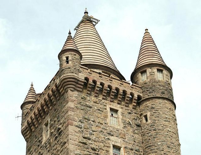 Scrabo Tower near Newtownards (6) The upper floors of the tower. Although designed by Lanyon’s practice it is said that the drawings were done by WH Lynn. Another point of interest is that the budgeted price was £2,000 but the final cost amounted to £3,010 (using a source on the internet, the 2008 equivalent of £3,010 in 1865 is appx £1.8 million). Whether all the extras were allowed is another matter but it’s recorded that the contractor became insolvent. It might have cost even more had the tower been built as originally designed. One storey was removed from the plans to reduce costs.